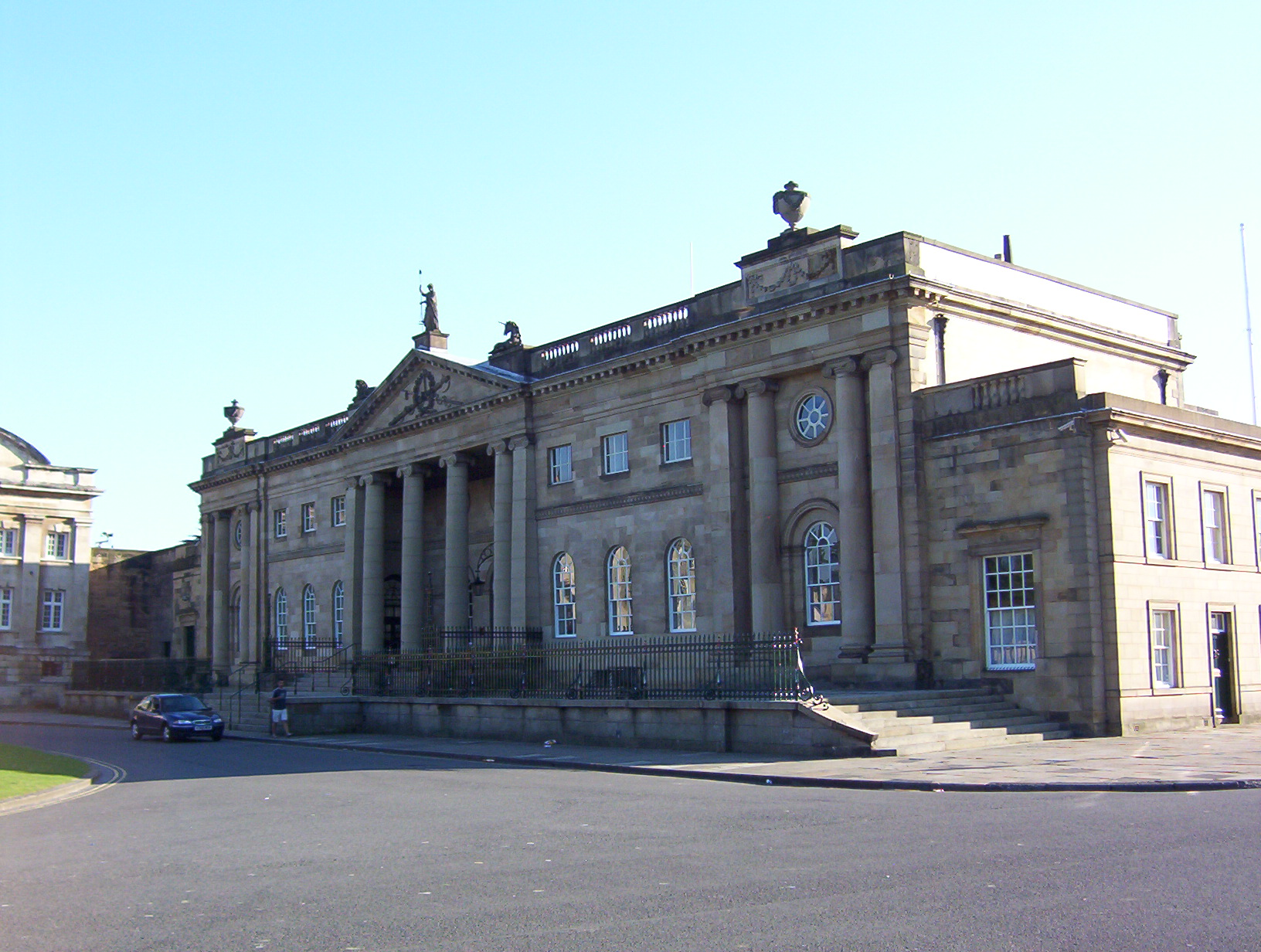 York Crown Court, at The Castle, York England.